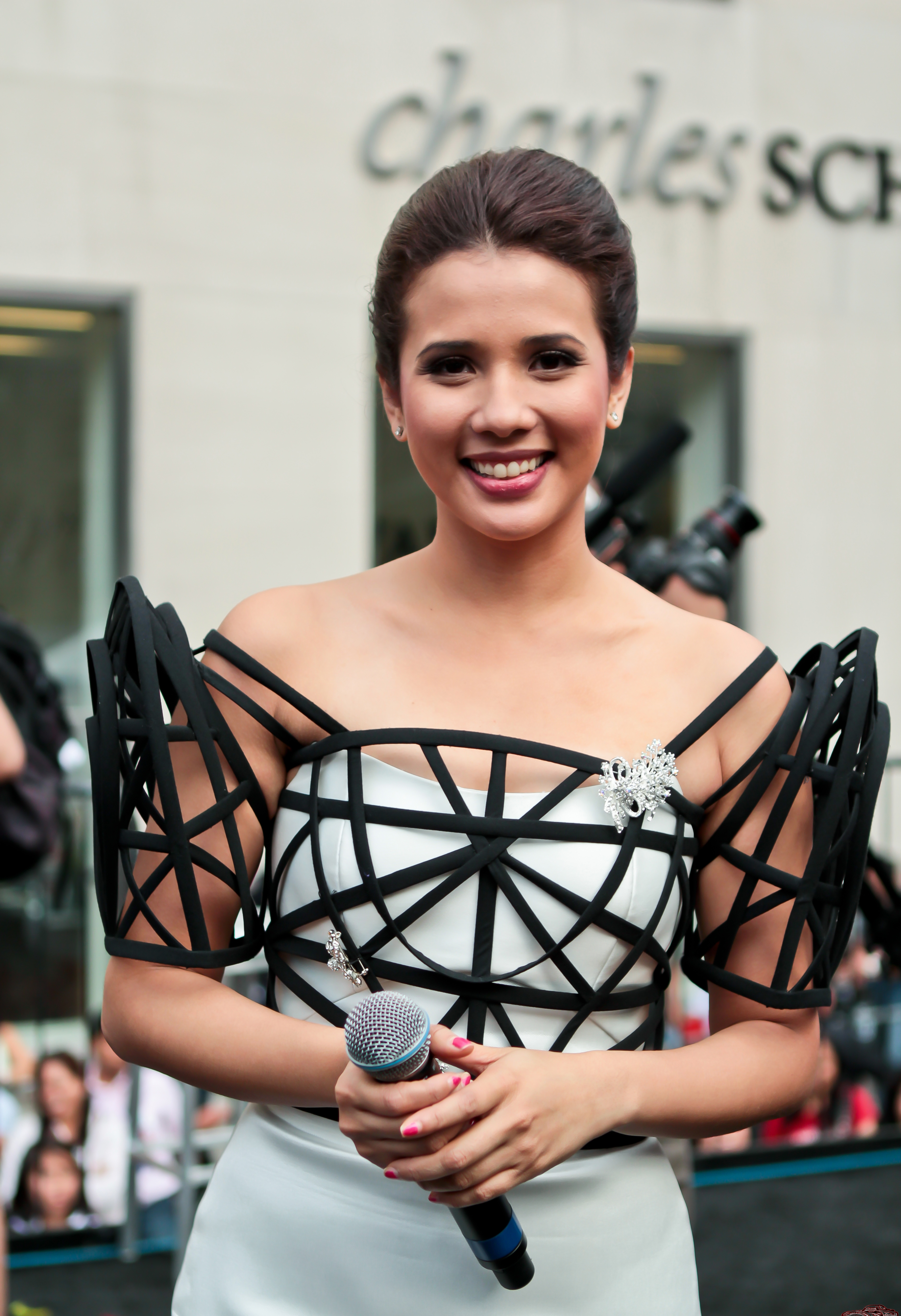 Karylle as photographed by Mickey Miranda in June 2011.